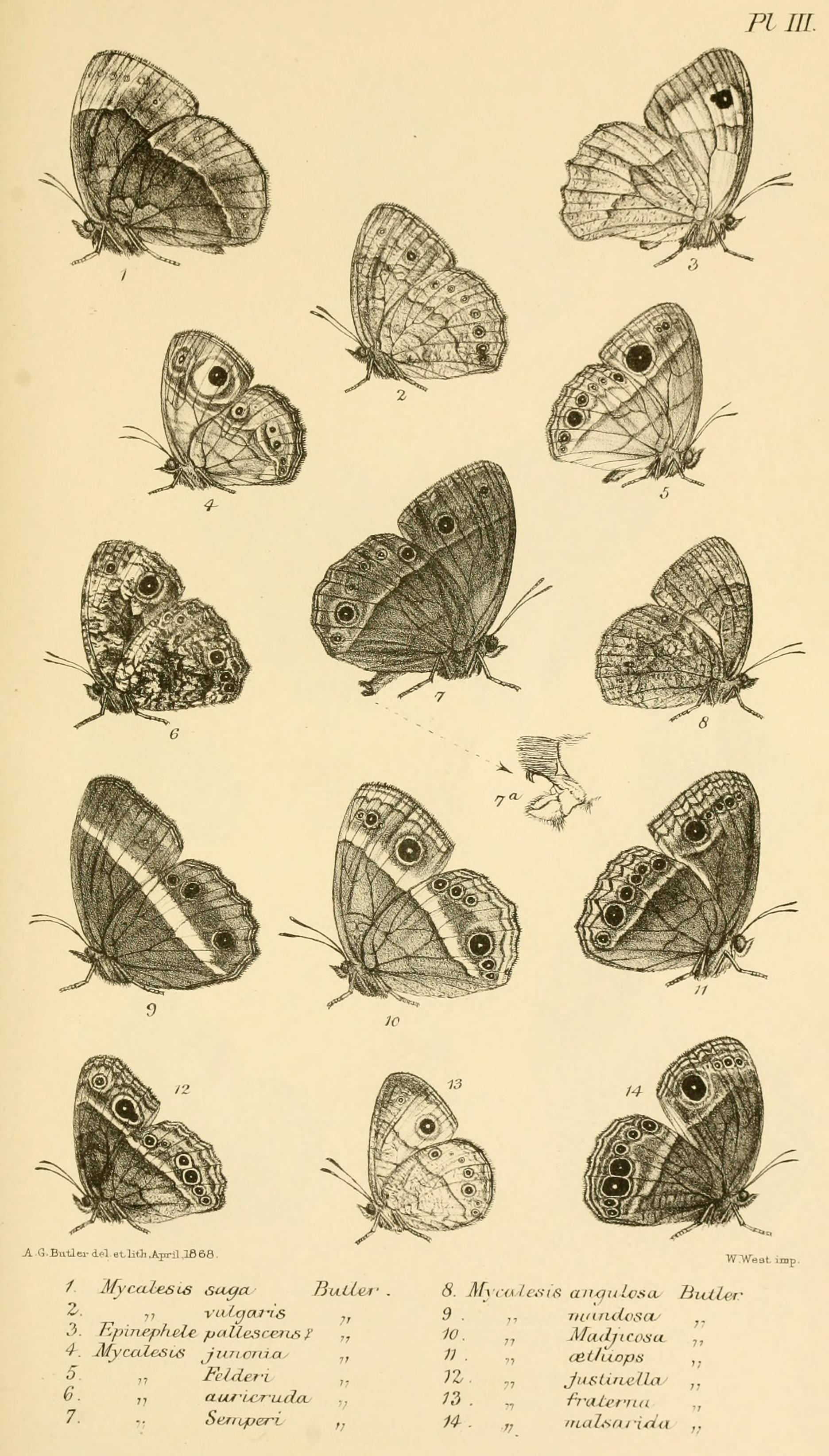 ButlerCatalogueDiurnalLepPlate3